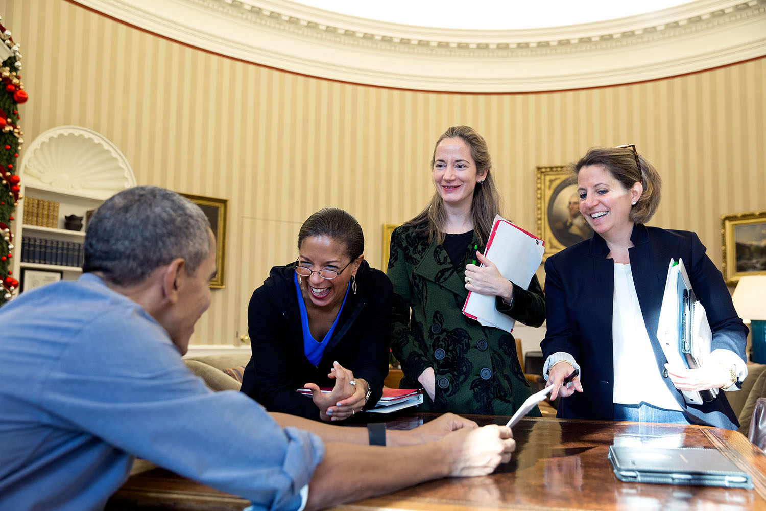 Dec. 5, 2015 "A rare moment of weekend laughter with the President's key national security aides, from left, National Security Advisor Susan E. Rice, Homeland Security Advisor Lisa Monaco, and Deputy National Security Avril Haines as they joke about a cartoon in the New Yorker that resembled the three women." (Official White House Photo by Pete Souza) L to R: Susan E. Rice, Avril Haines, Lisa Monaco